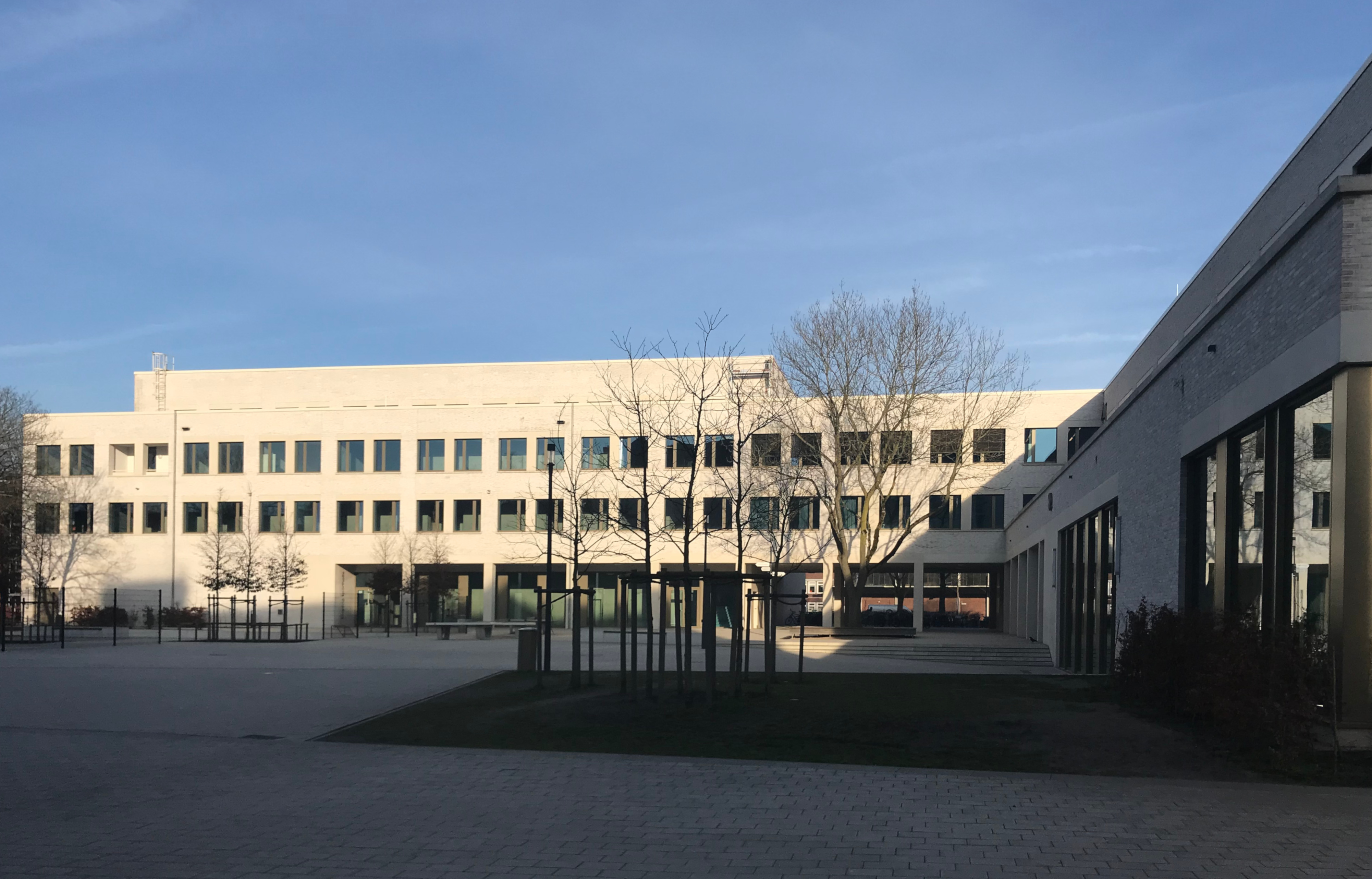 Gymnasium Hoheluft in Hamburg, new building built 2012-2014